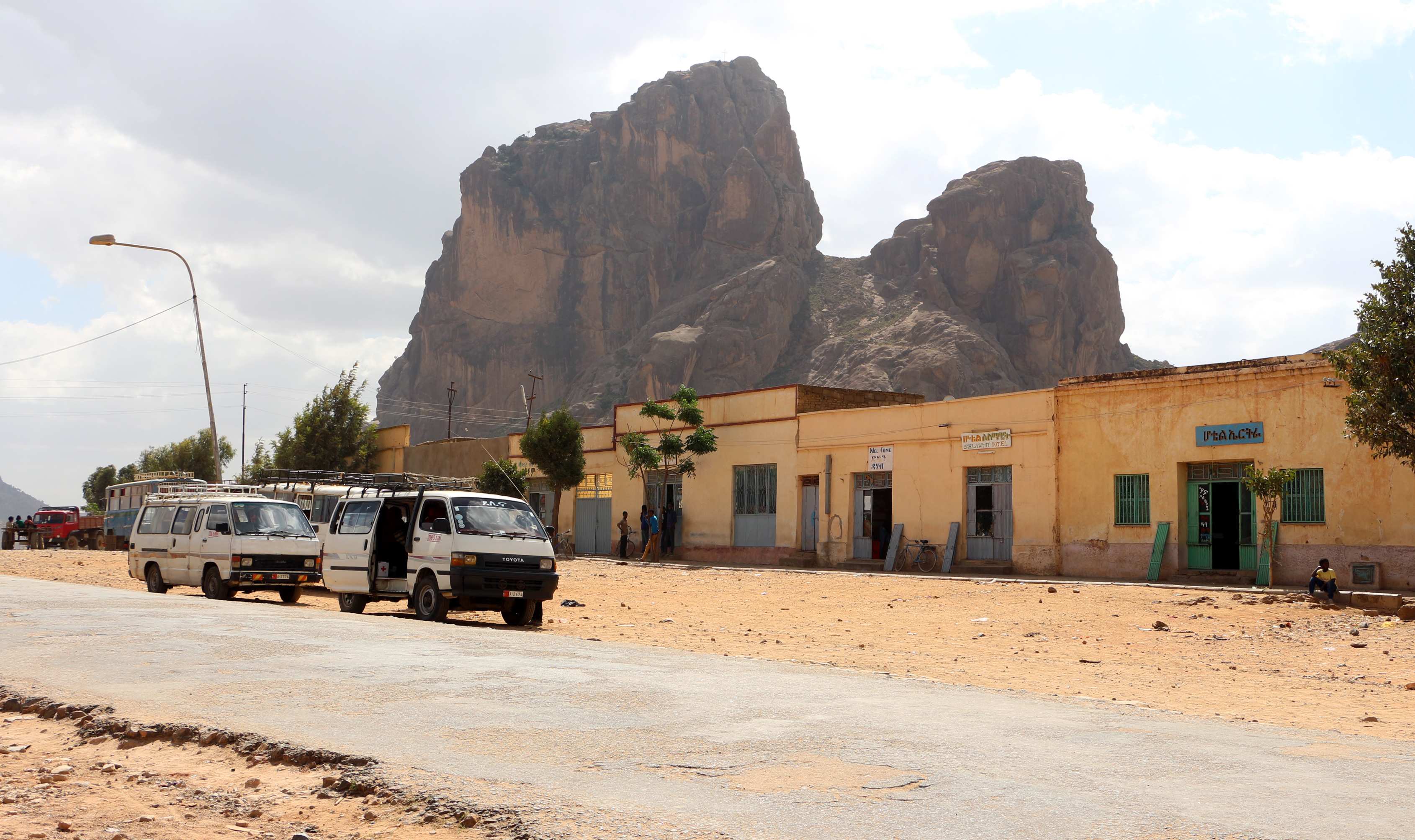 Senafe